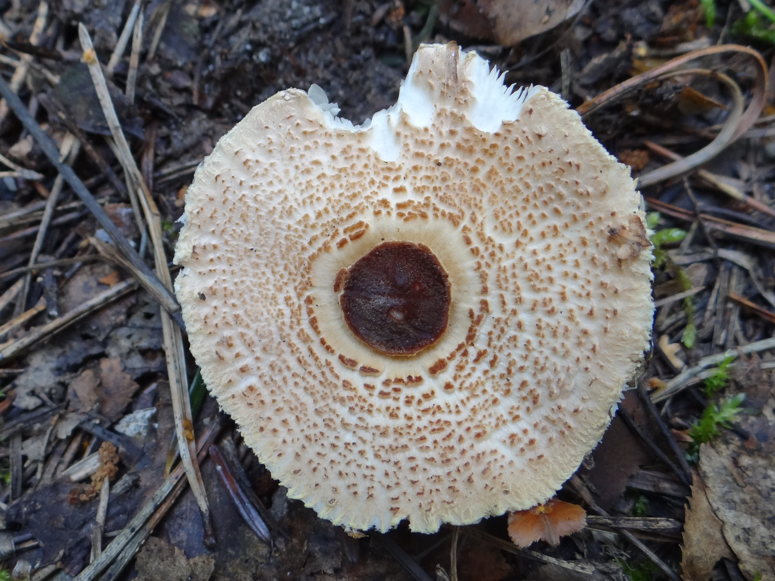 Lepiota clypeolaria (location:Poland, Beskid Wyspowy, Kamionna)